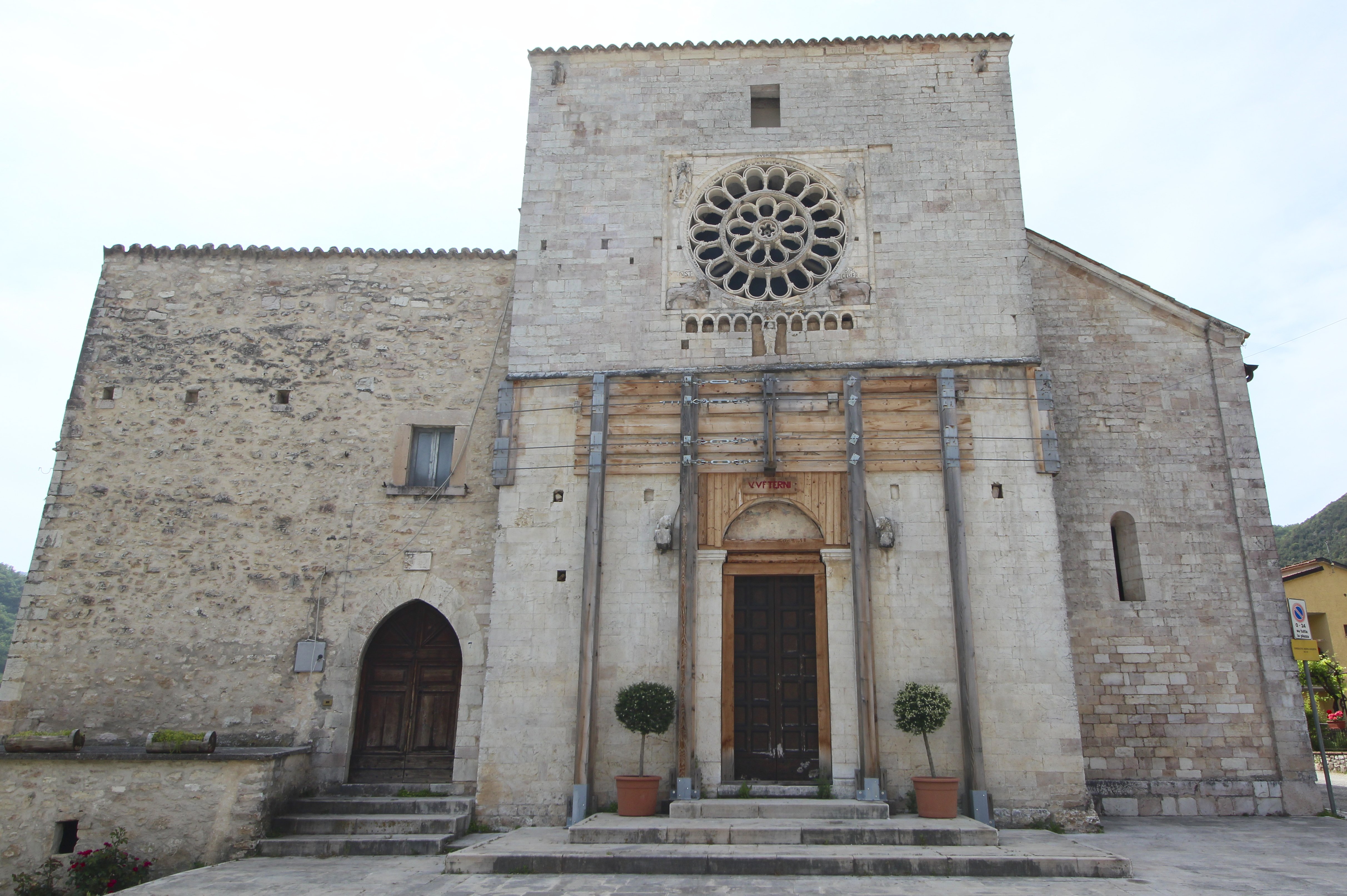 Church Santa Maria Assunta, Ponte, hamlet of Cerreto di Spoleto, Umbria, Italy